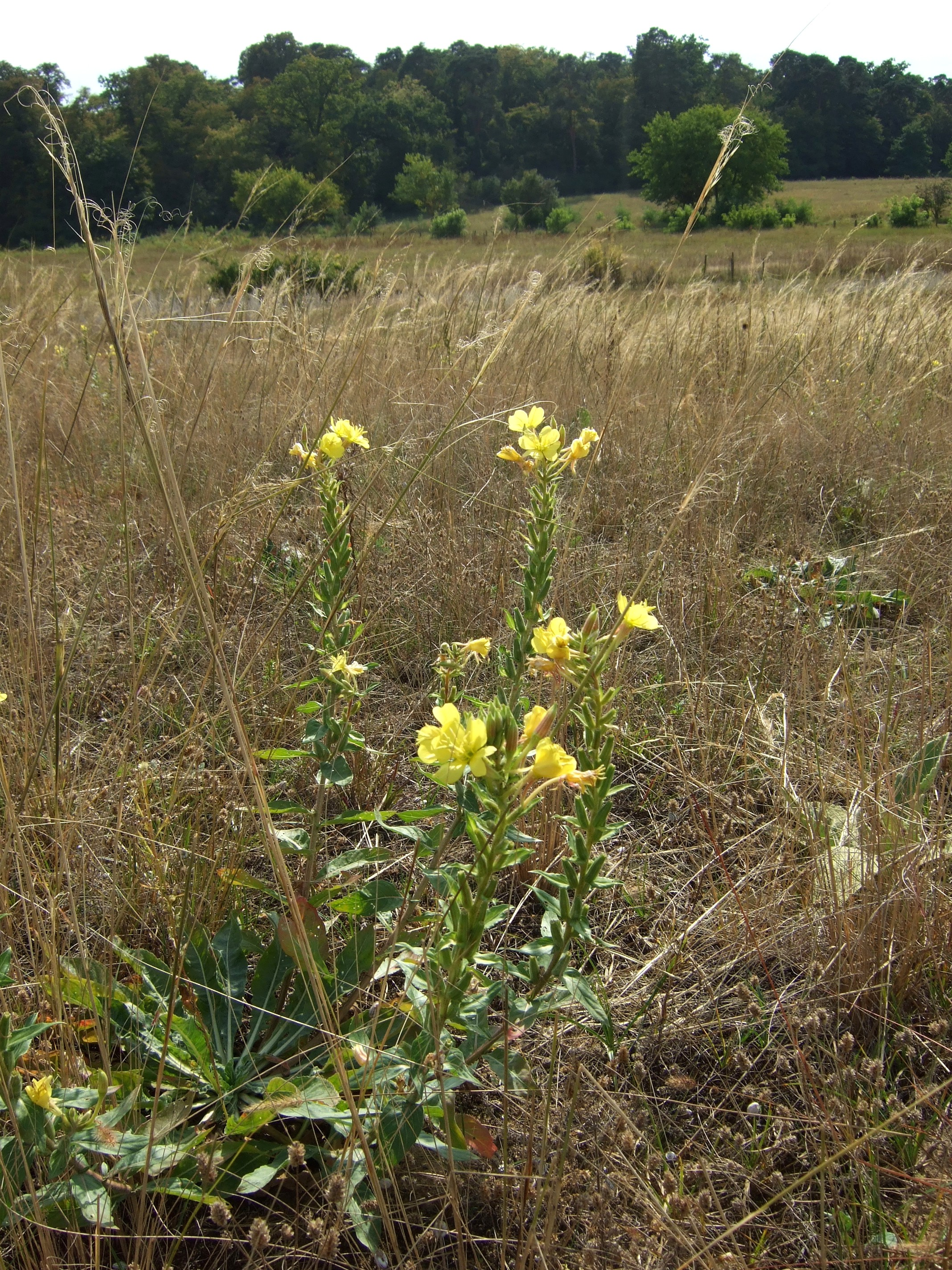 Nature reserve Griesheimer Düne und Eichwäldchen (Darmstadt, Hesse, Germany). Plants in the foreground are yellow flowering Oenothera sp. and Stipa capillata.